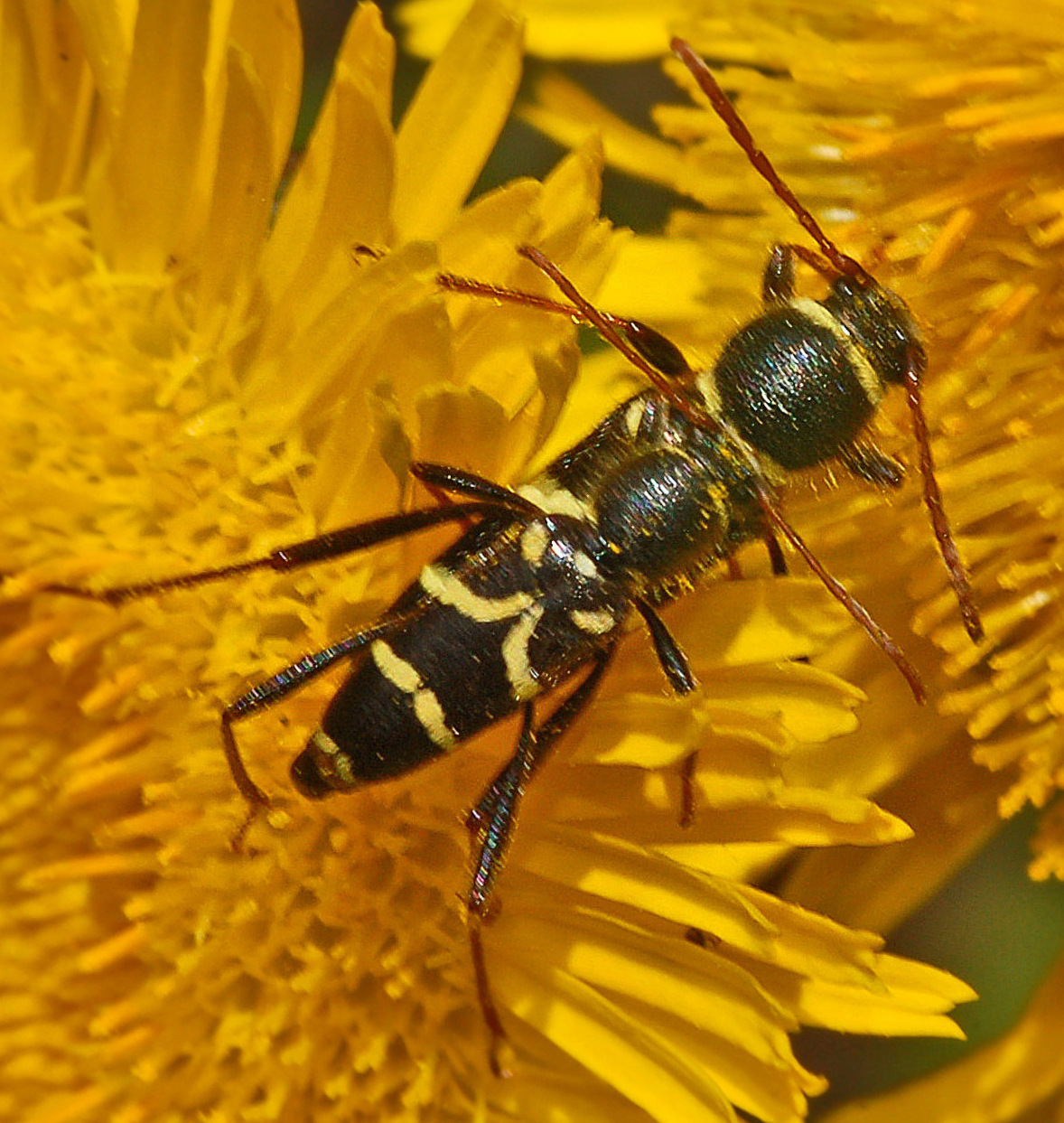 Clytus rhamni. Mating couple. Genoa, Italy